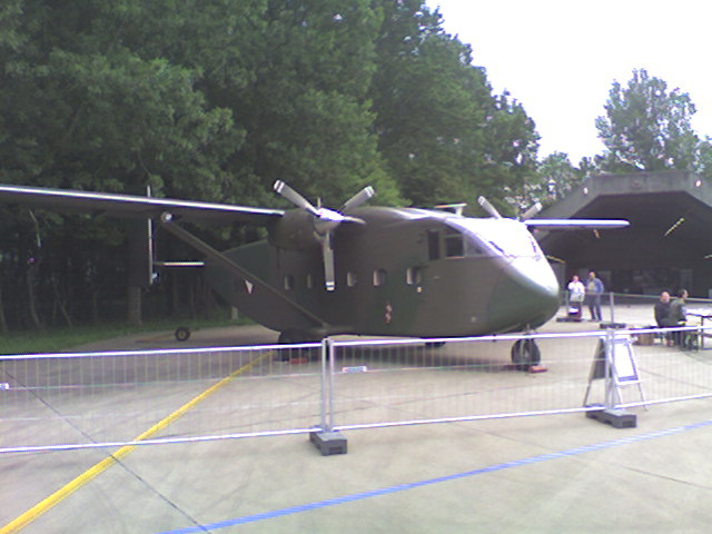 An Austrian Air Force Short SC.7 Skyvan, a military transport aircraft.